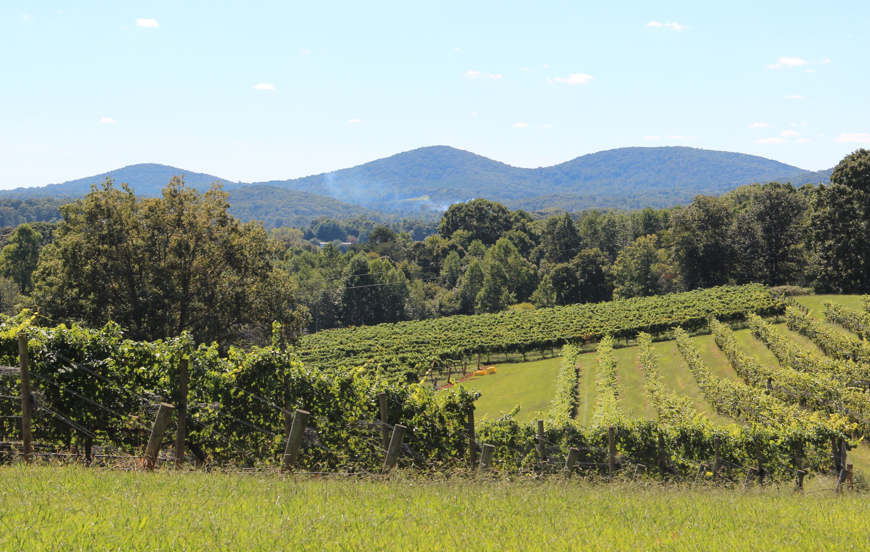 View of Three Sisters from Three Sisters Vineyards